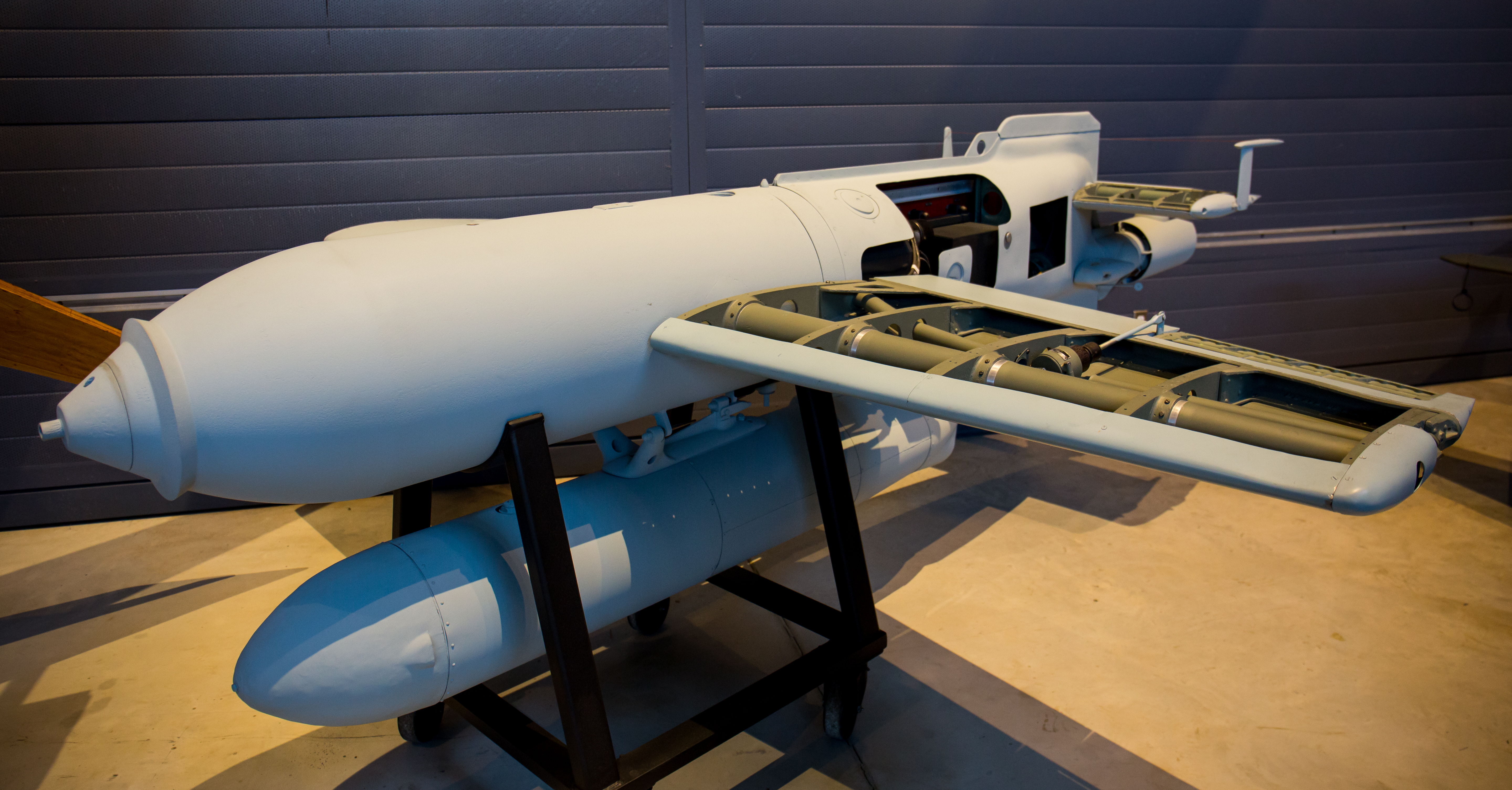 An Hs 293 A-1 on display at the Smithsonian Air and Space Museum Udvar-Hazy Center in Chantilla, Virginia.